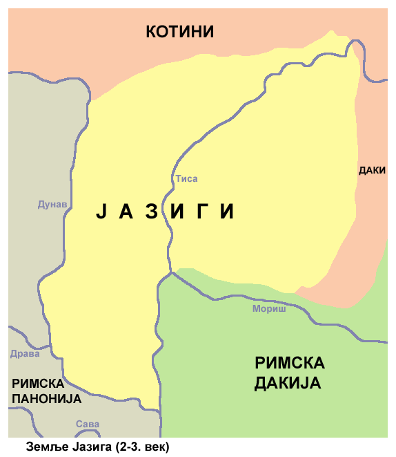 Lands of the Iazyges (2nd-3rd century).